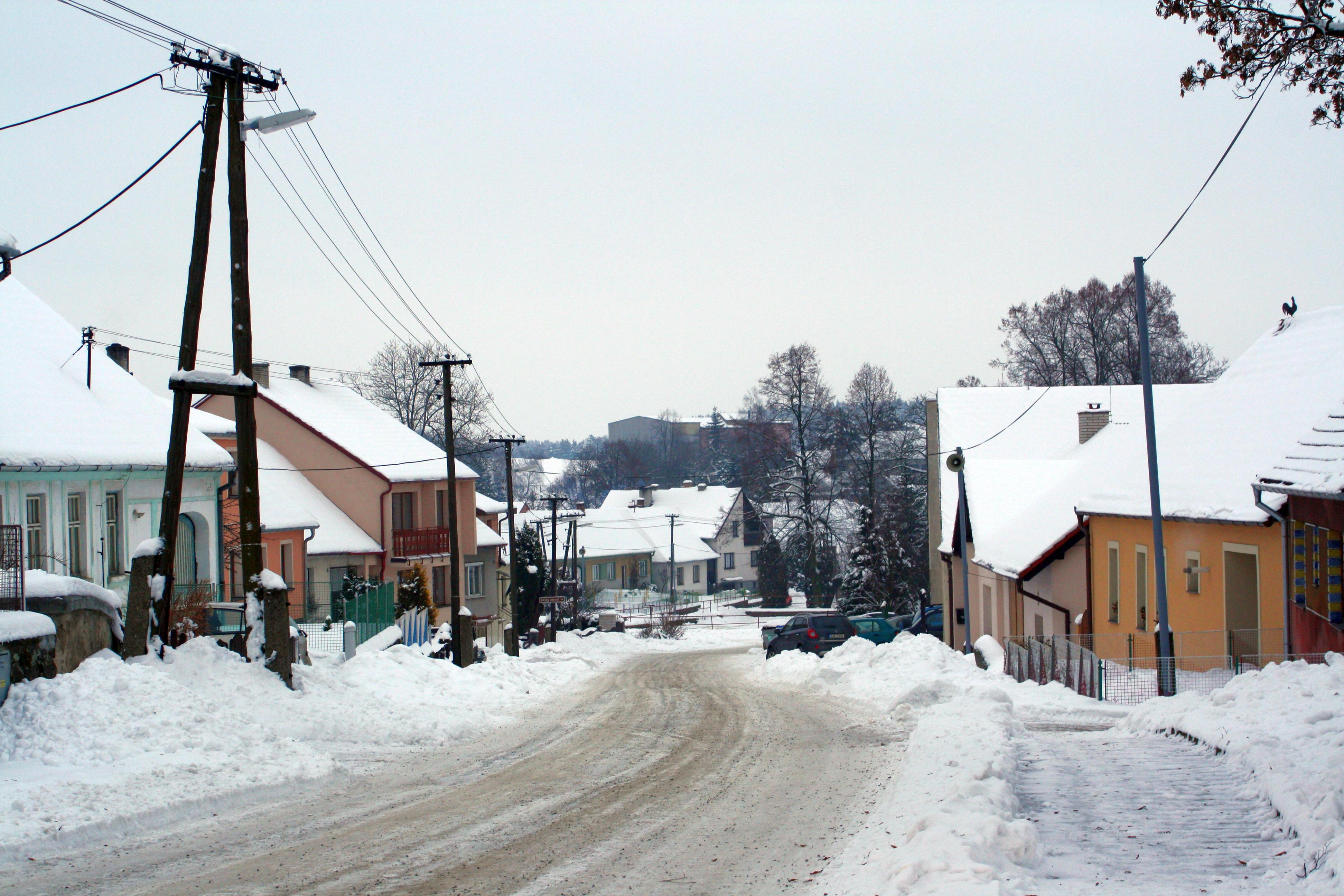 Center of Hodov, Czech Republic.